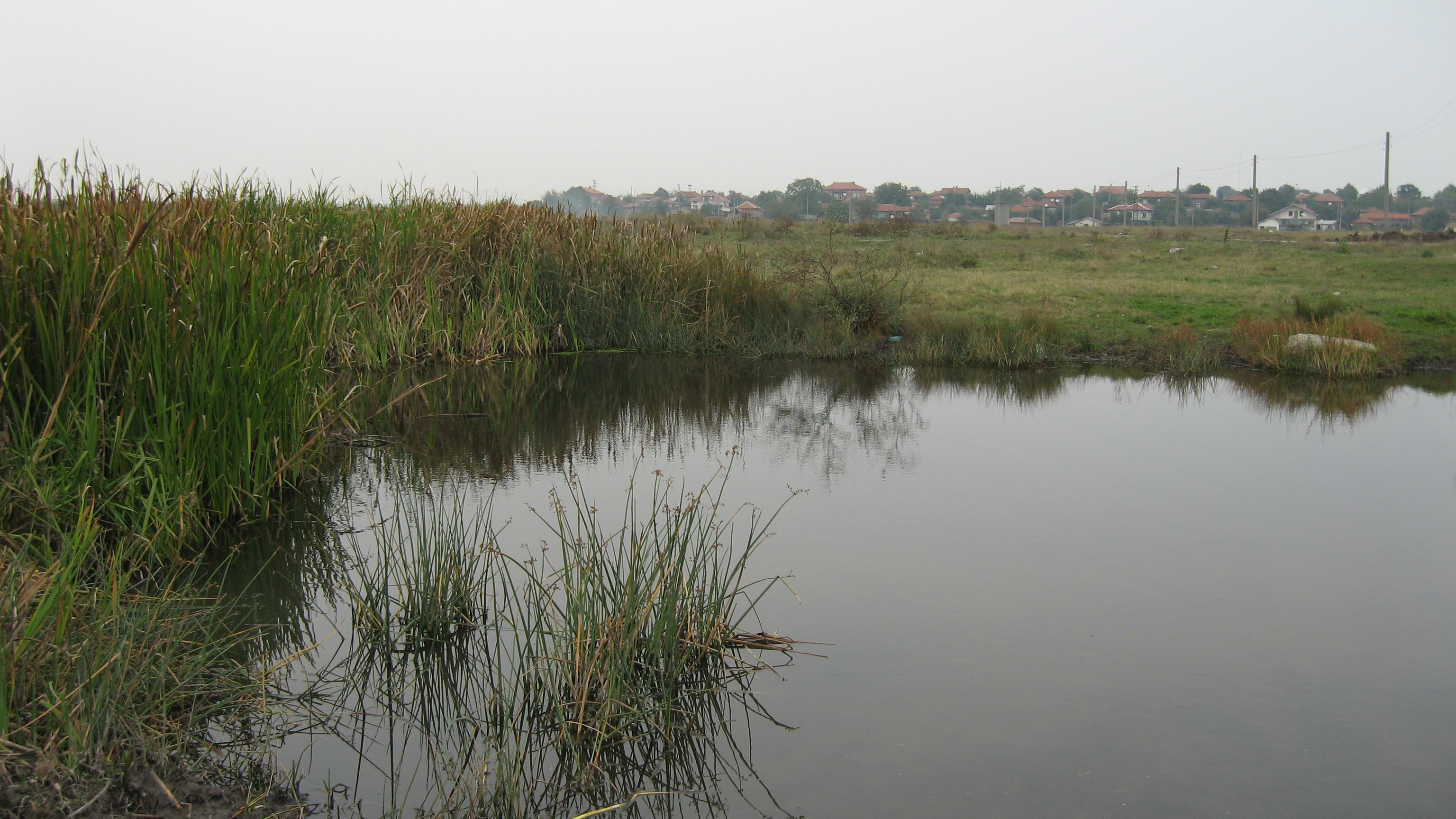 Harmanliyska river, village Voyvodovo